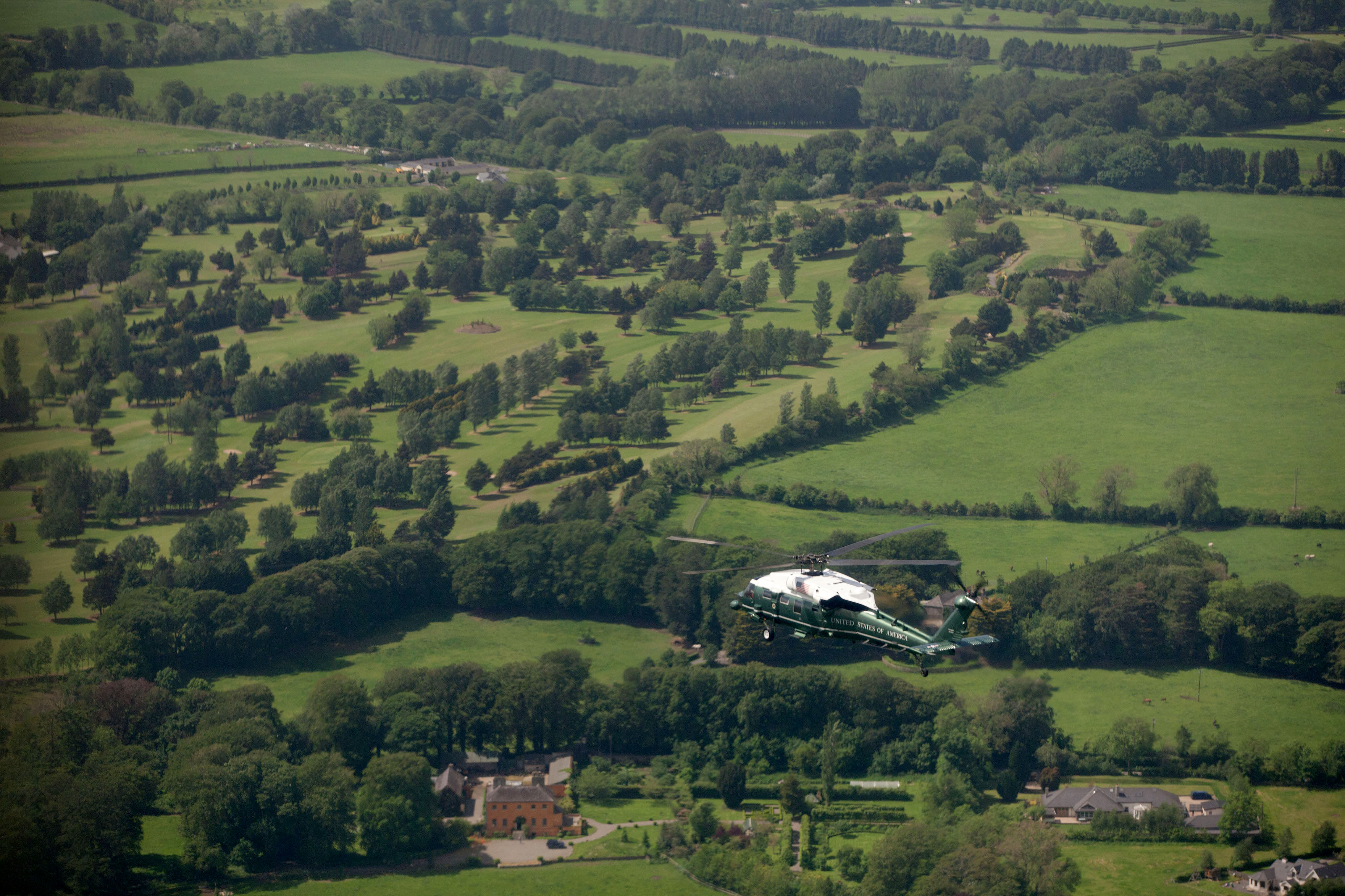 Sikorsky UH-60 Black Hawk "Marine One" helicopter carrying President Barack Obama and First Lady Michelle Obama across Irish countryside from Dublin to the home of his Irish ancestors in Moneygall, County Offaly, where the President met his distant relatives on 23 May 2011. Background: Bodenstown golf course, 2 km northeast of Sallins, County Kildare.